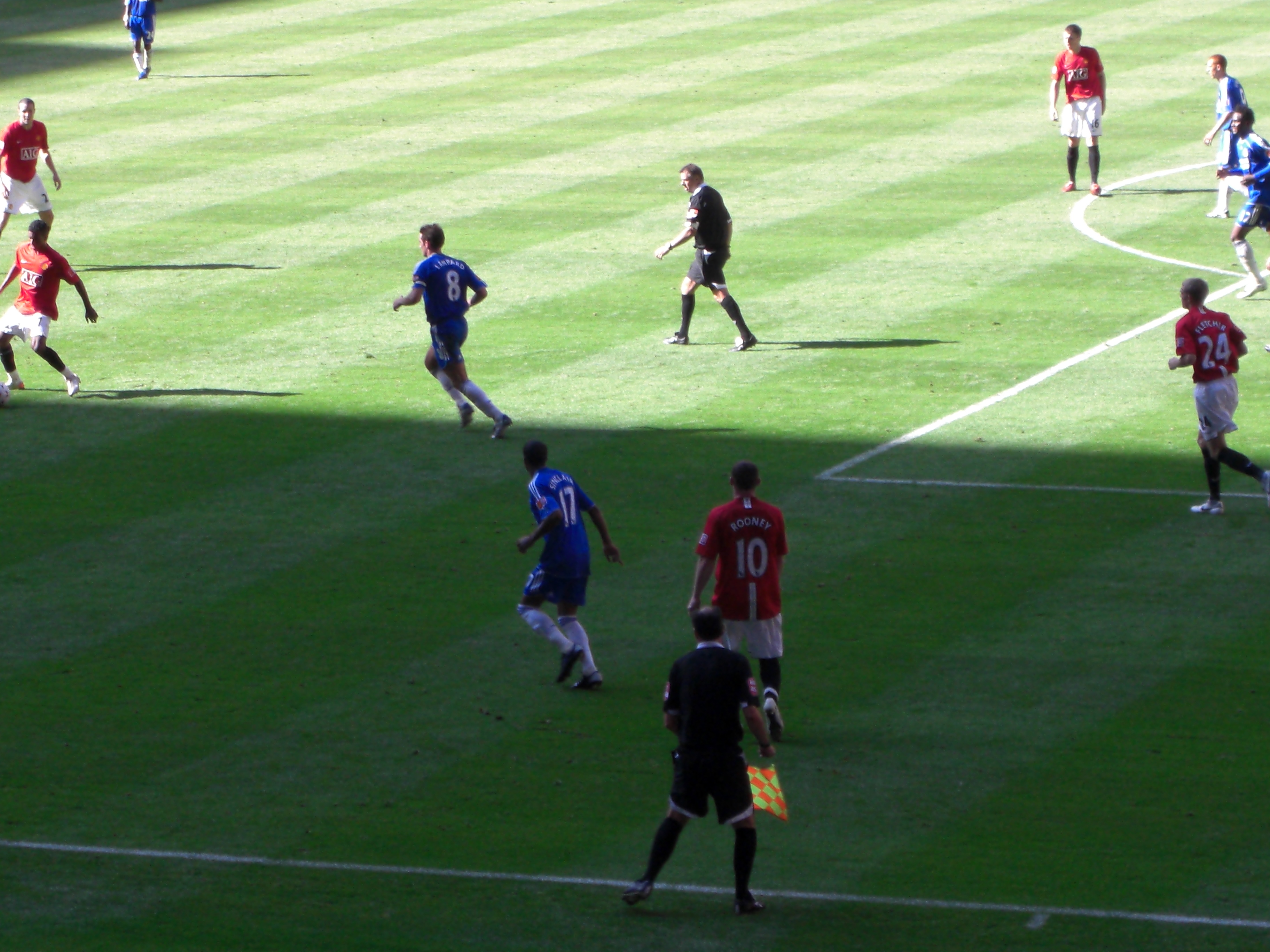 Manchester United vs Chelsea 1-1 (3-0 after panalties) - Community Shield at Wembley